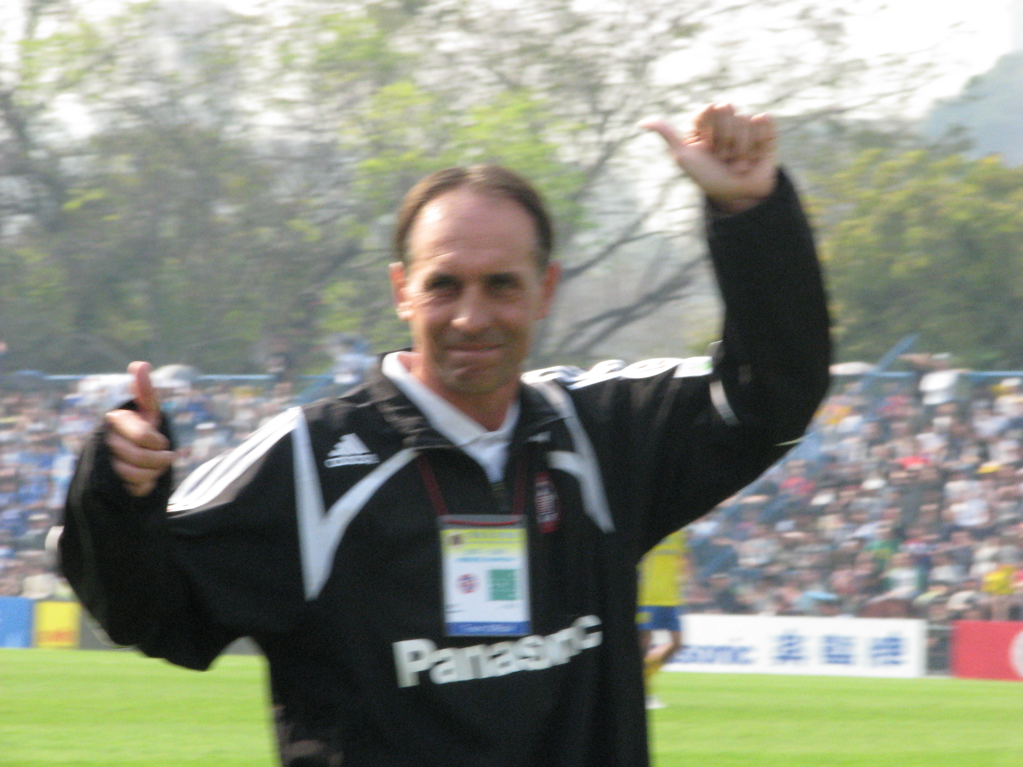 Casemiro Mior, Eastern head coach, after a HK League Cup match